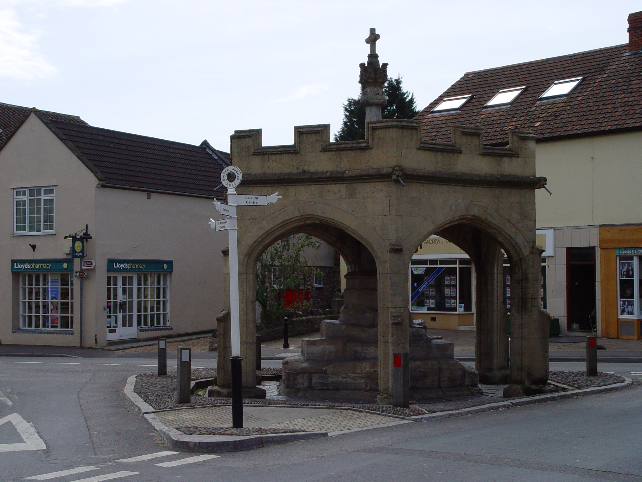 Market Cross